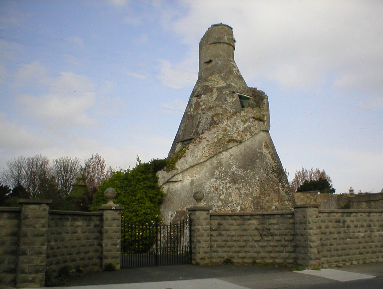 original digital image Suckindiesel 19:53, 15 April 2007 (UTC)